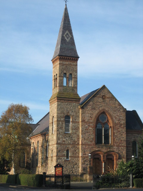 Knock Methodist Church. Built of scrabo sandstone, the church was dedicated on 13 June 1883.